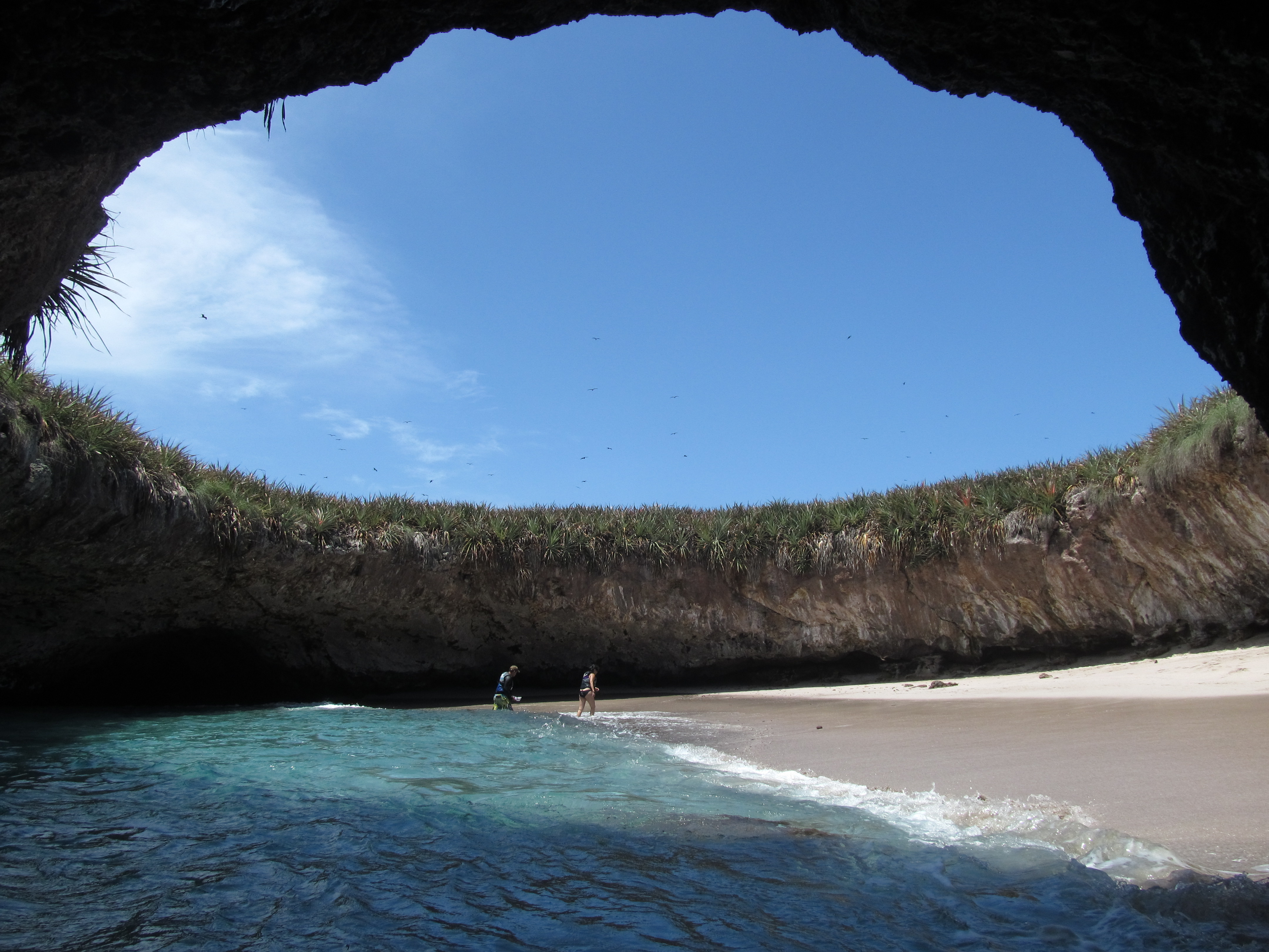 A picture of the famous "love beach" in the Marieta Islands in Mexico.